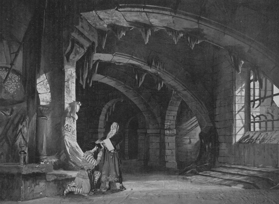 Albert-Lambert and Mounet-Sully performing Otbert and Job in Act III of Victor Hugo's "Les Burgraves" (Comédie-Française, 1902). Set by Eugène Louis Carpezat. Photography by Henri Mairet in "Le théâtre".